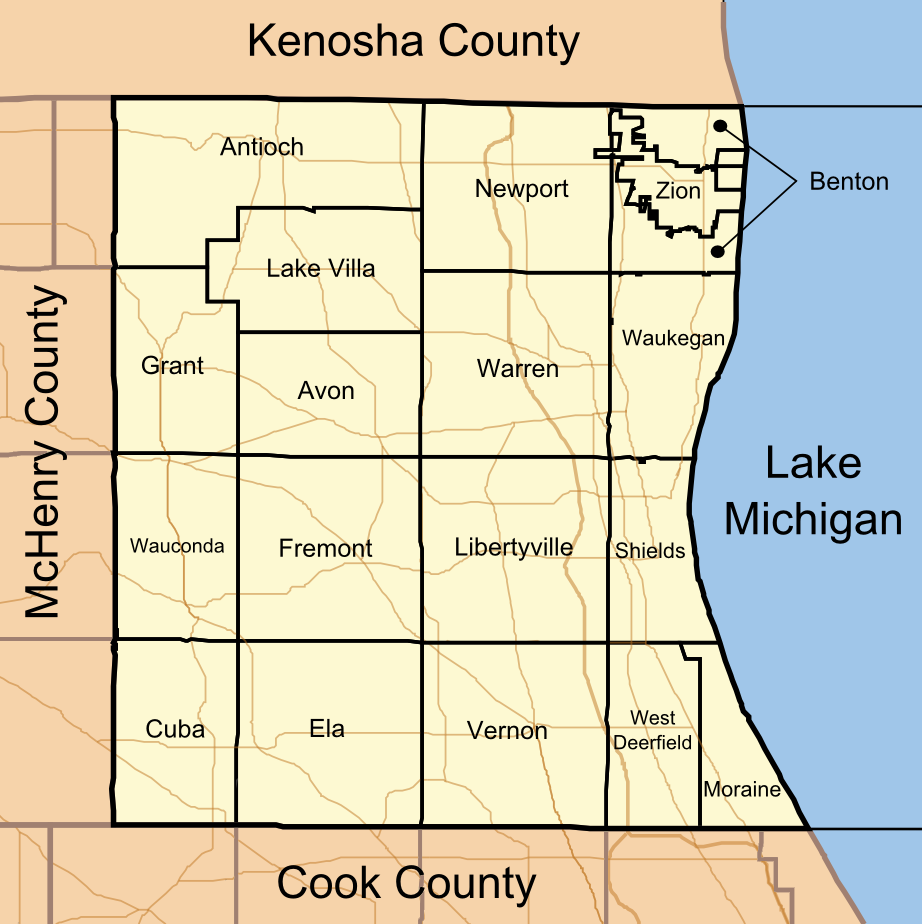 This is a map which shows the borders of Lake County, Illinois and the borders of its townships.